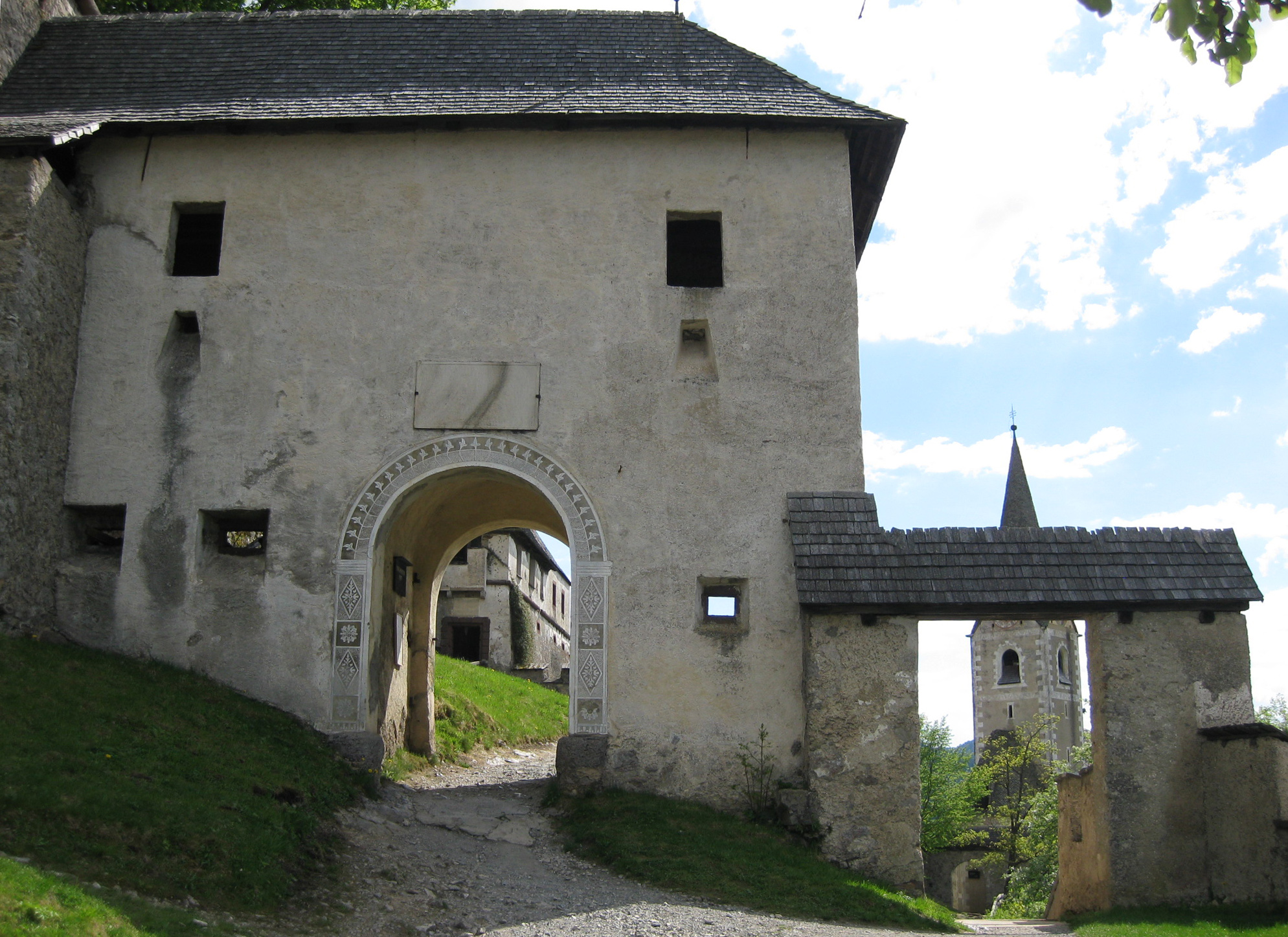 Hochosterwitz castle (slovenian: grad Ostrovica), castle in Carinthia state, Austria 13th door